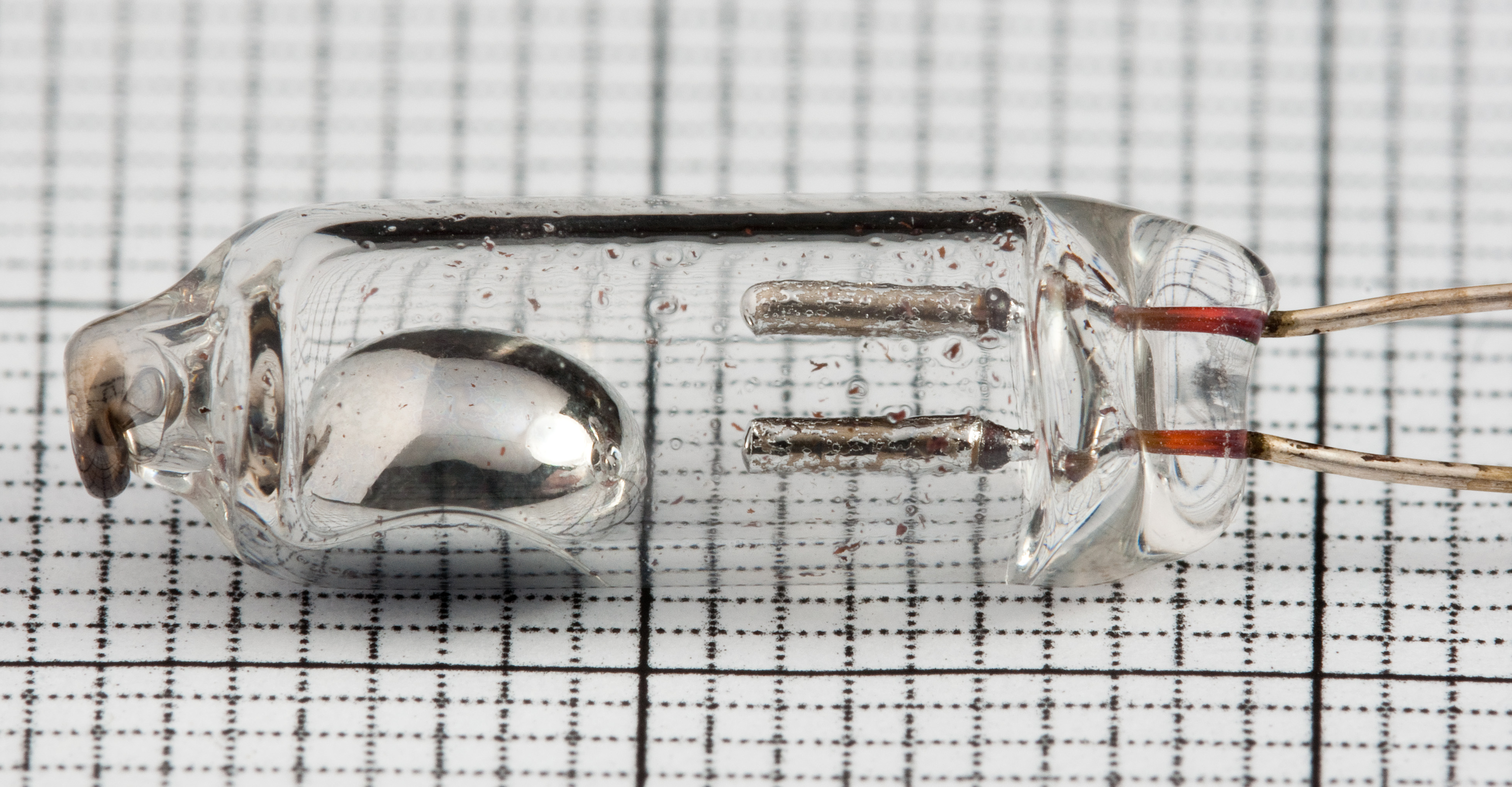 SEMCO mercury switch 106MS. Rated for 1.5–110 volts AC or DC. Without housing on millimetre graph paper